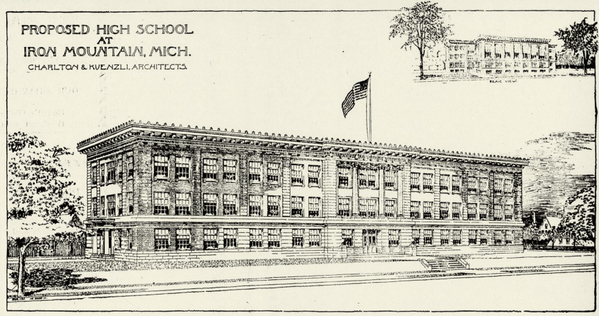 Sketch of the proposed Iron Mountain High School building by architects Charlton & Kuenzli, which appeared in the May 11, 1911 edition of the Iron Mountain Press.